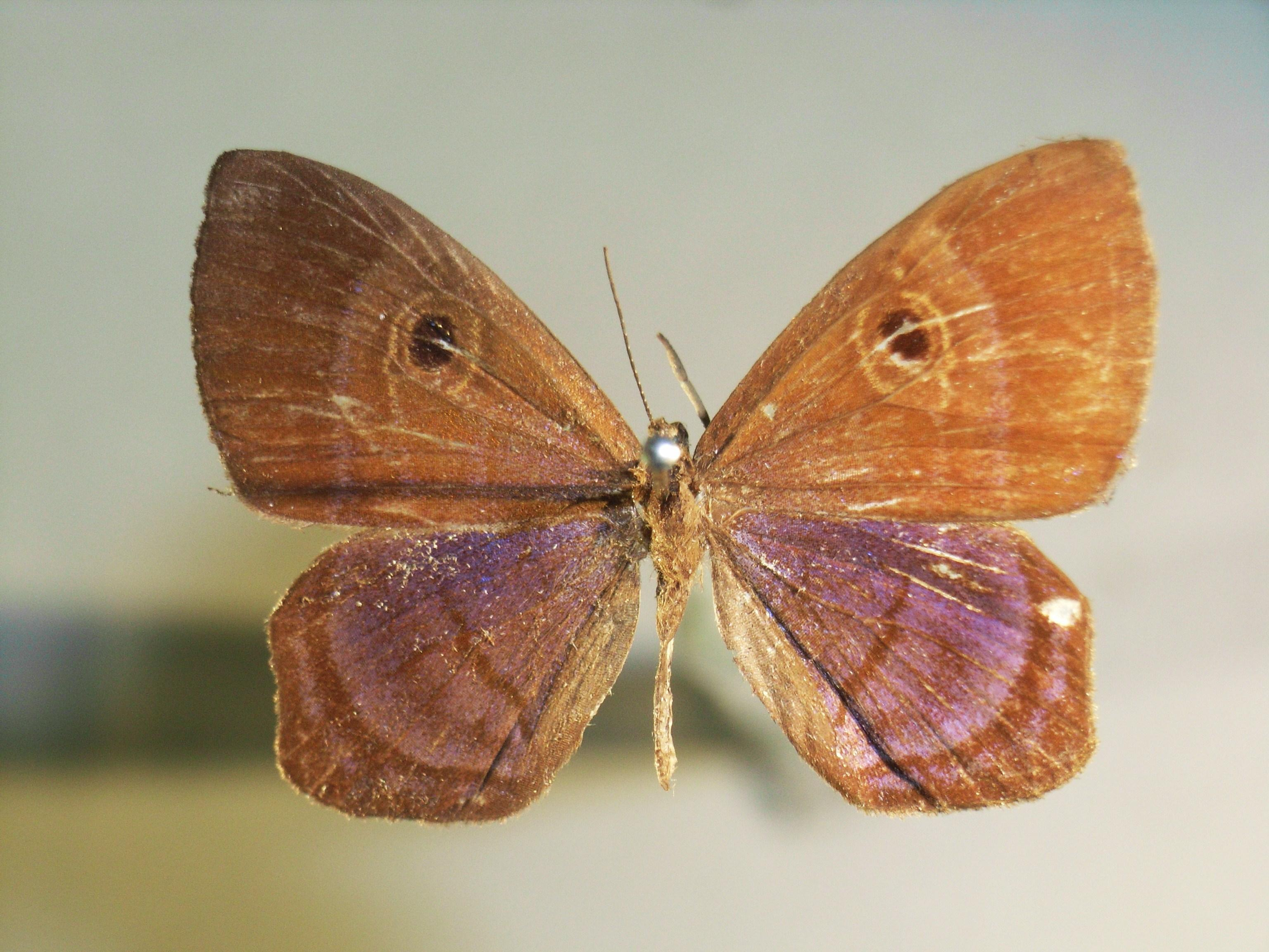 Mesosemia tetrica:Riodinidae